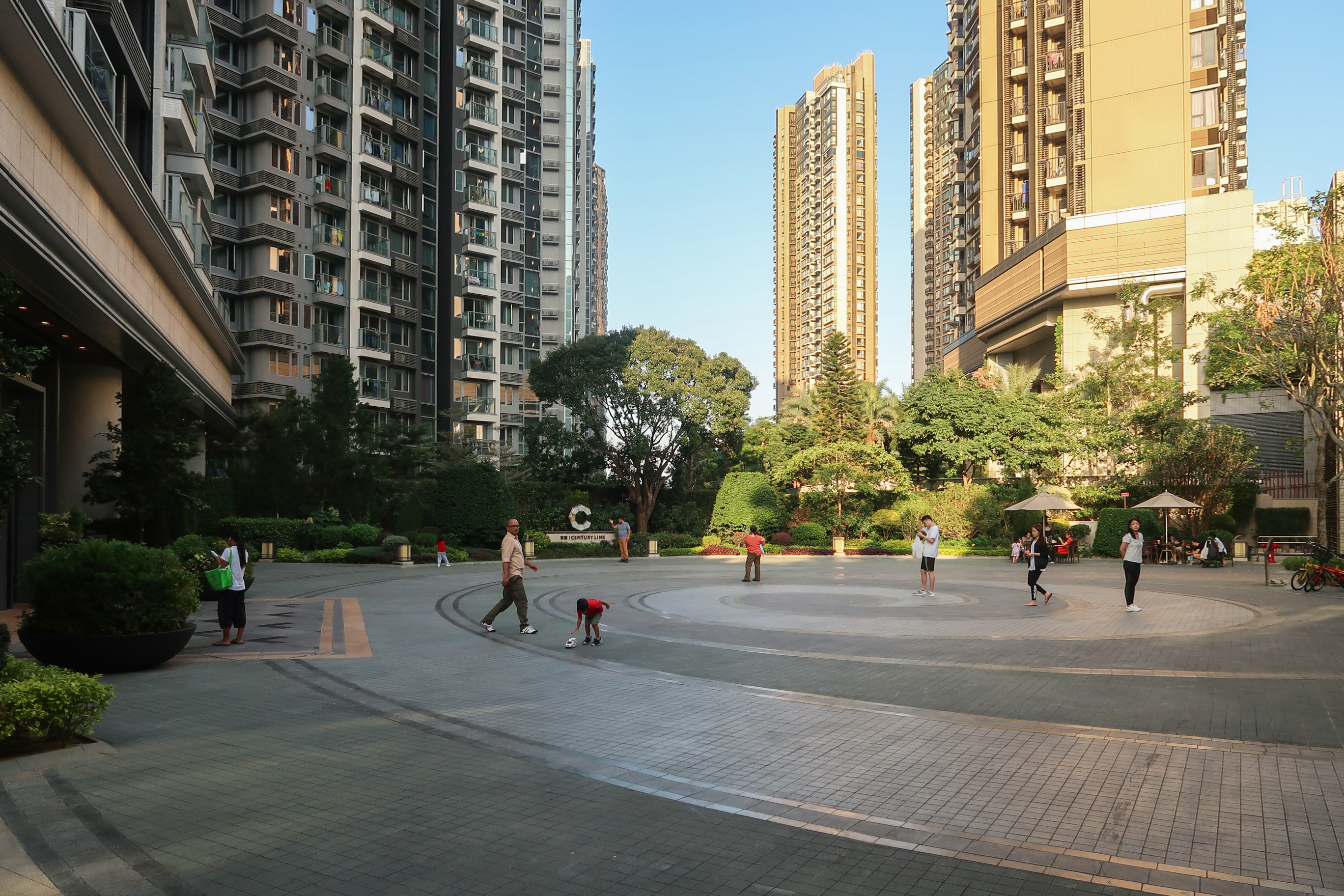 Century Link Entry Plaza